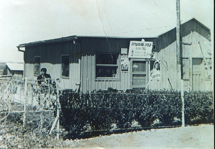 בית קפה מרגוע קרית אתא